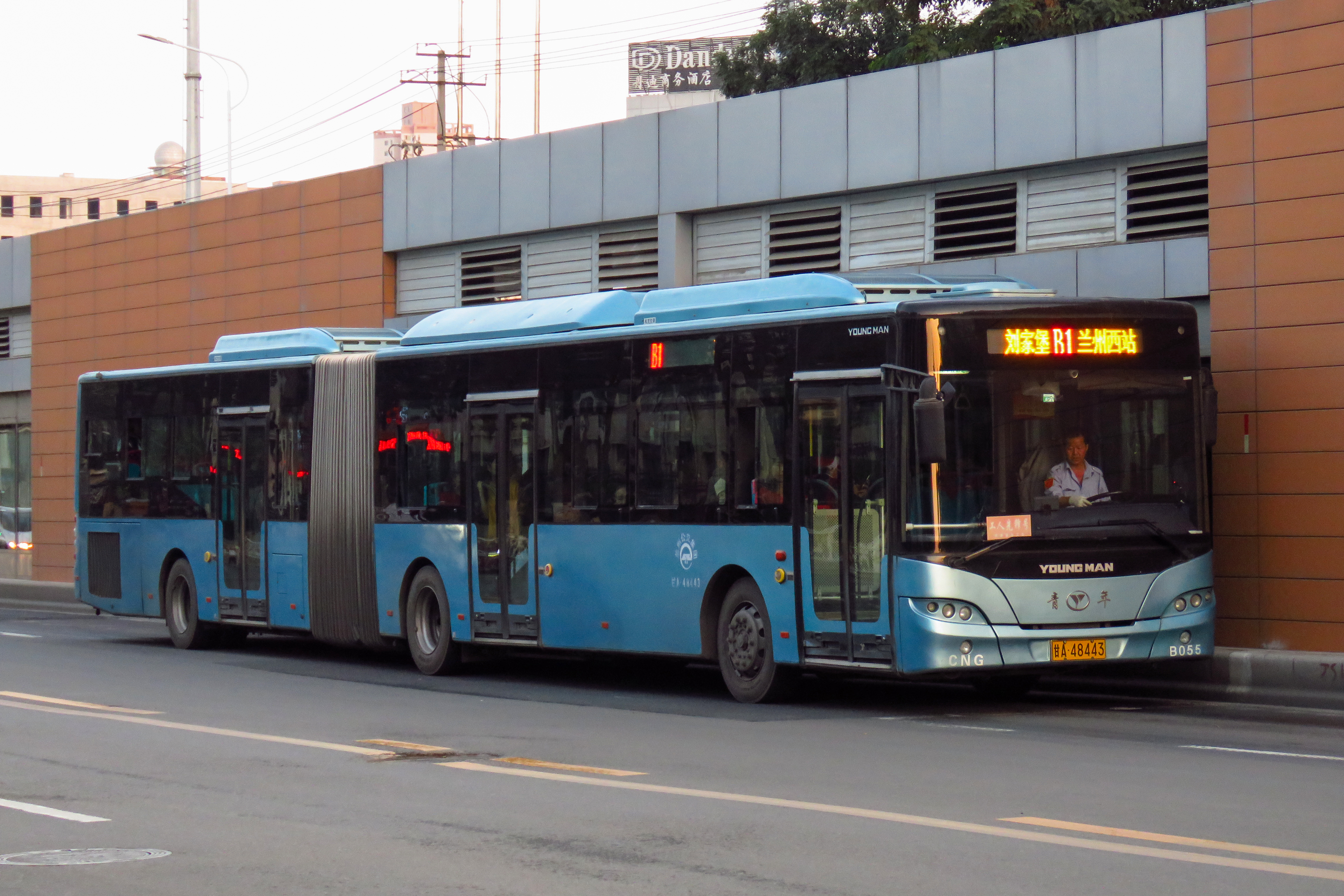 JNP6181GC with doors on two sides.